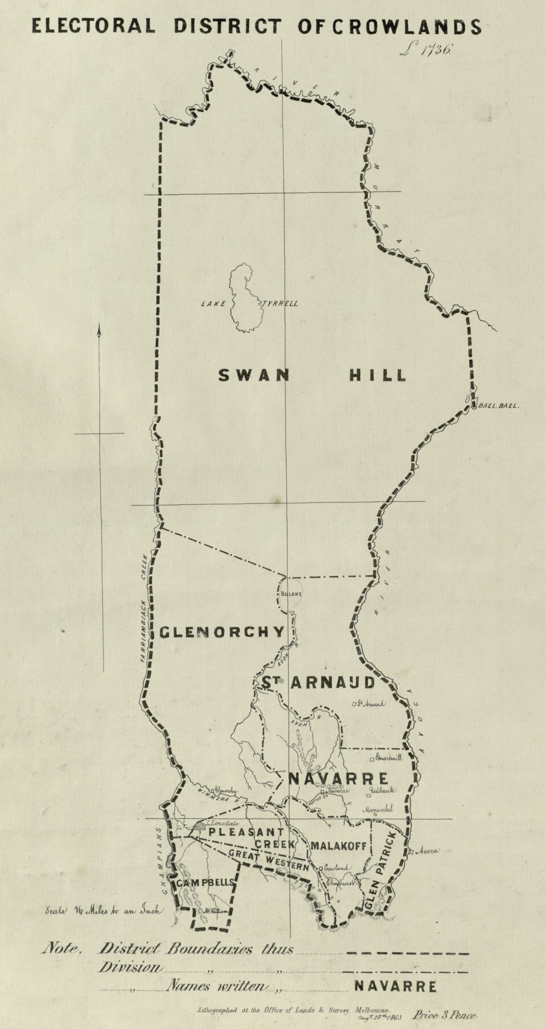 Electoral district of Crowlands, Victorian Legislative Assembly